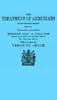 Cover of the The Treatment of Armenians in the Ottoman Empire, 1915-1916